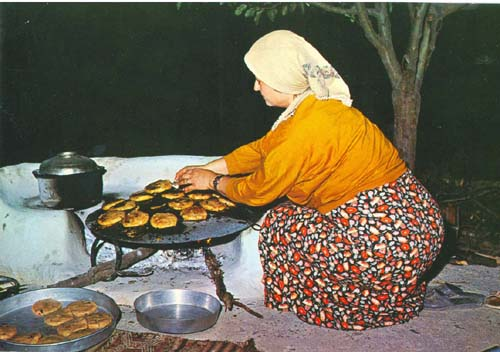 A woman is cooking a kind of bread at the village of Görmeli, Karaman, Turkey on a "saj" (local name "sac").